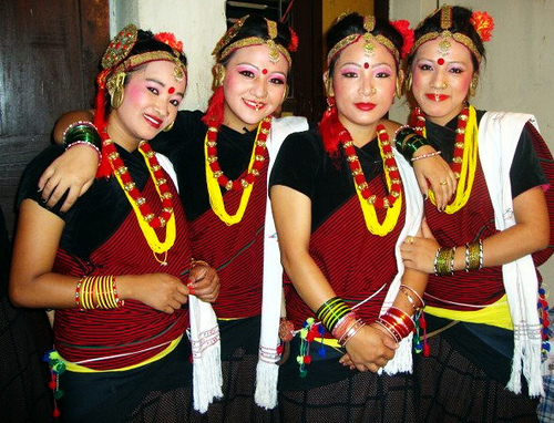 Indigenous magar girls of Nepal